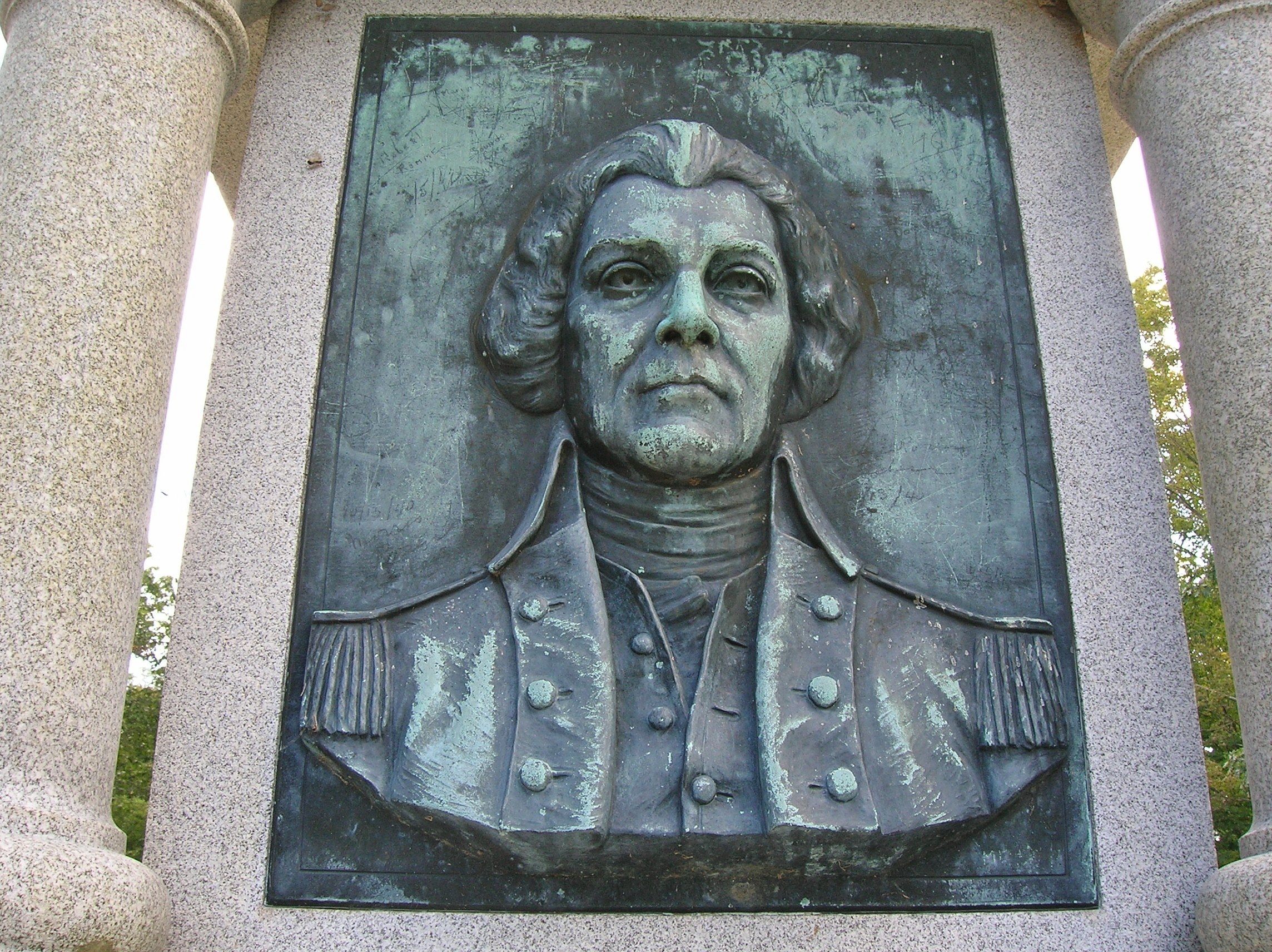 Photograph taken 9/29/2018 of bronze bas relief bust of Major General Joseph Spencer. This bust is located on a memorial at the Nathan Hale Schoolhouse site in East Haddam, Connecticut. The memorial was dedicated on June 22, 1904. The sculptor is unknown. The foundry was Gorham Manufacturing Company.